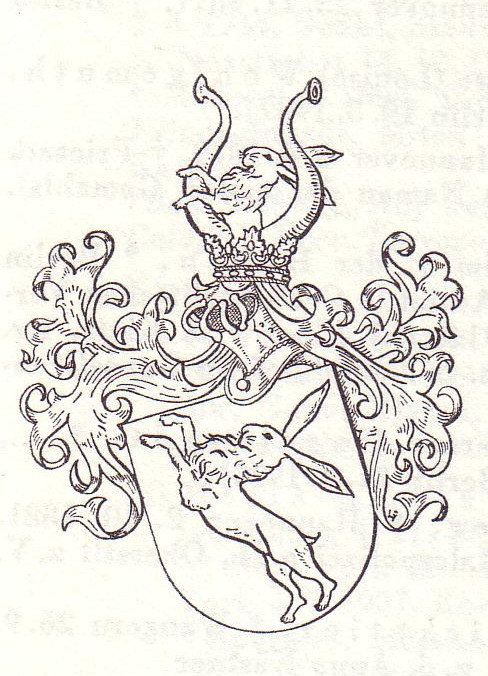 Coat of Arms of the Hase family, Germany